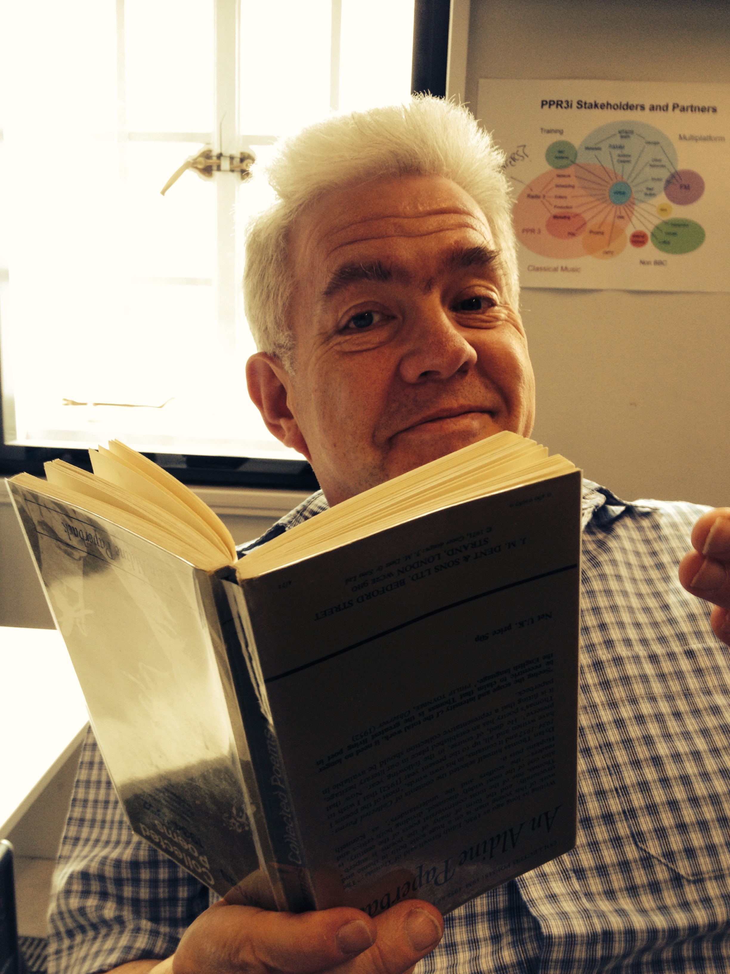 At Broadcasting House with Ian McMillan For Dylan Thomas Day, 5 May 2014